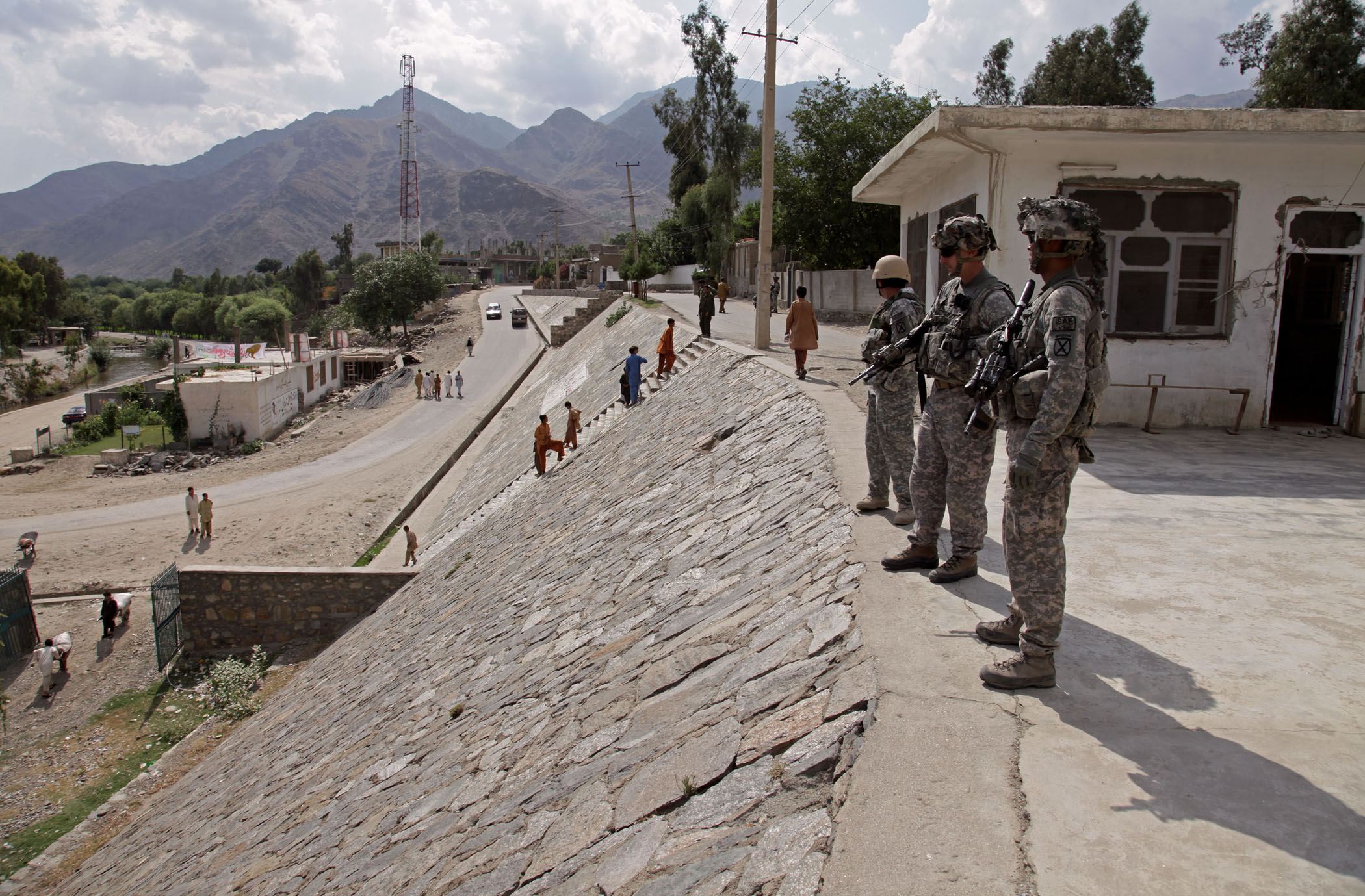 U.S. Army Soldiers from 1st Battalion, 32nd Infantry Regiment, 3rd Brigade Combat Team, 10th Mountain Division, patrol the streets of Asadabad city in Kunar province, Afghanistan, Aug. 19. The Soldiers were conducting missions in support of the Afghan national security force's efforts to ensure stability the day before the Afghan presidential election. (Photo ID: 197695)